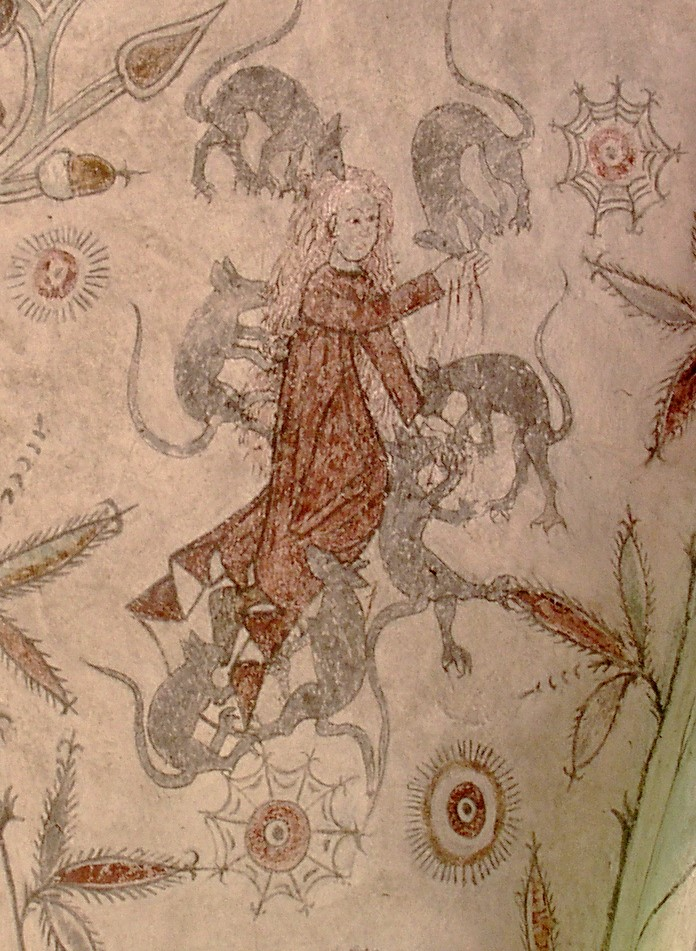 Kaga kyrka / Kaga church. Linköping, Sweden. Kaukilla. (Cropped version)